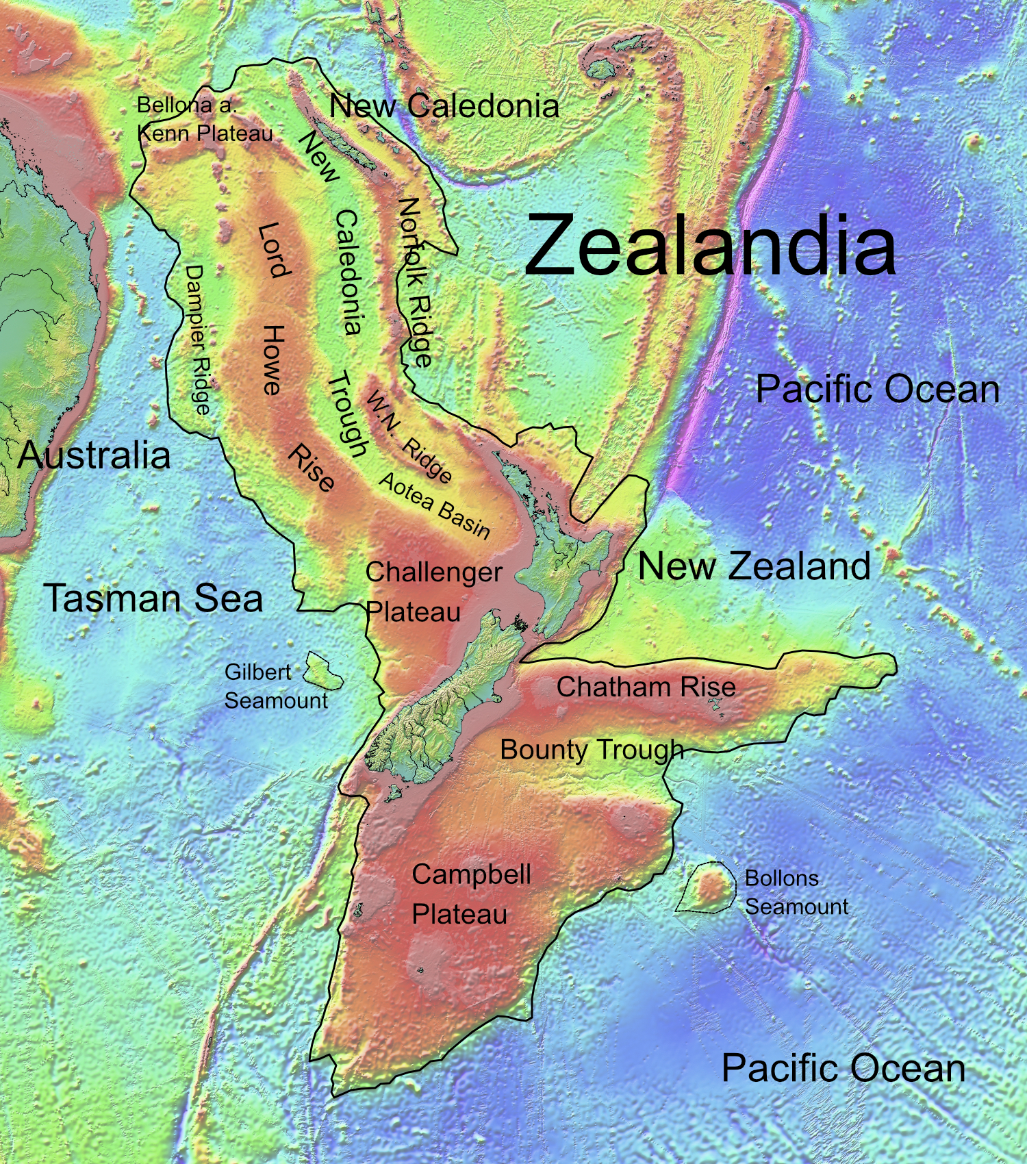 Topographic map of Zealandia, based on bathmetry data from Scripps Institution of Oceanography, University of California, San Diego.Bordure is based on information which was given in: Nick Mortimer; Hamish Campbell (2014) Zealandia - Our Continent Revealed, London: Penguin Books, p. 54 ISBN: 978-0-143-57156-8.